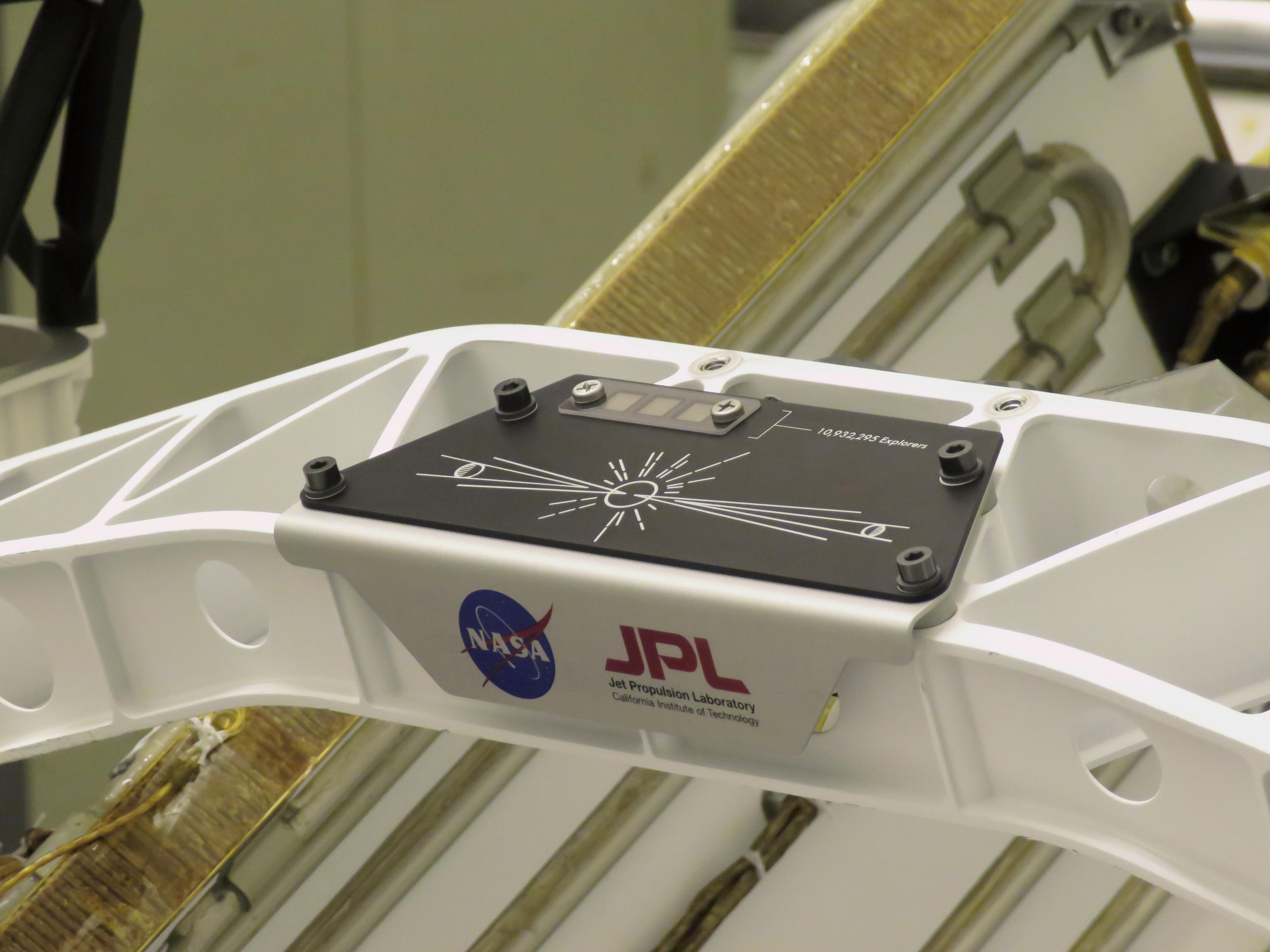 March 26, 2020 Send Your Name Placard Attached to Perseverance A placard commemorating NASAs Send Your Name to Mars campaign was installed on the Perseverance Mars rover on March 16, 2020, at Kennedy Space Center. A placard commemorating NASA's "Send Your Name to Mars" campaign was installed on the Perseverance Mars rover on March 16, 2020, at NASA's Kennedy Space Center in Florida. Three fingernail-sized chips affixed to the upper-left corner of the placard feature the names of 10,932,295 people who participated. They were individually stenciled onto the chips by electron beam, along with the essays of the 155 finalists in NASA's "Name the Rover" contest. Liftoff aboard a United Launch Alliance Atlas V 541 rocket is targeted for mid-July of 2020 from Cape Canaveral Air Force Station. NASA's Launch Services Program, based at Kennedy, is managing the launch. For more information about the mission, go to